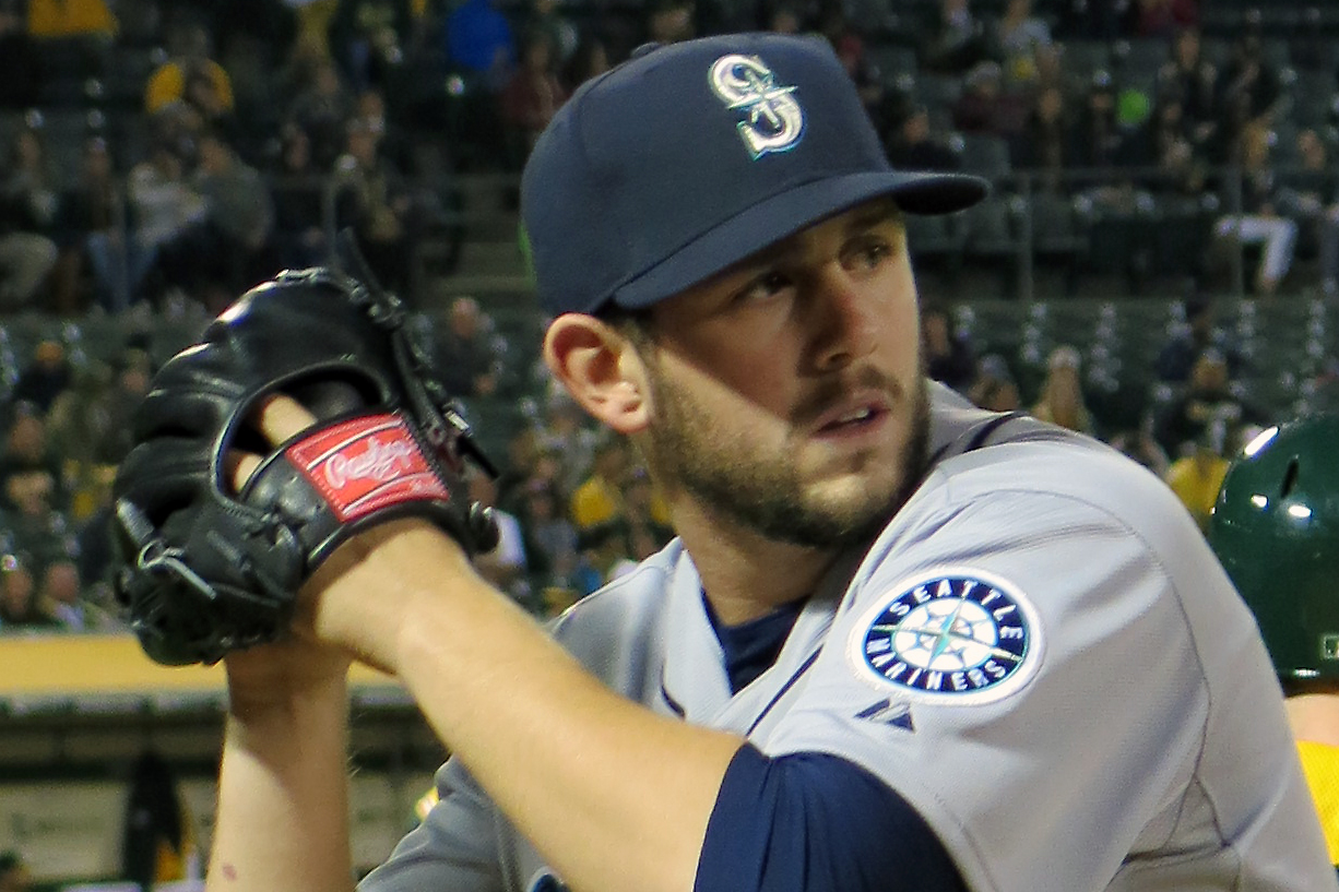 Seattle Mariners relief pitcher Dominic Leone warms up in the bullpen in a game against the Athletics in Oakland, California.